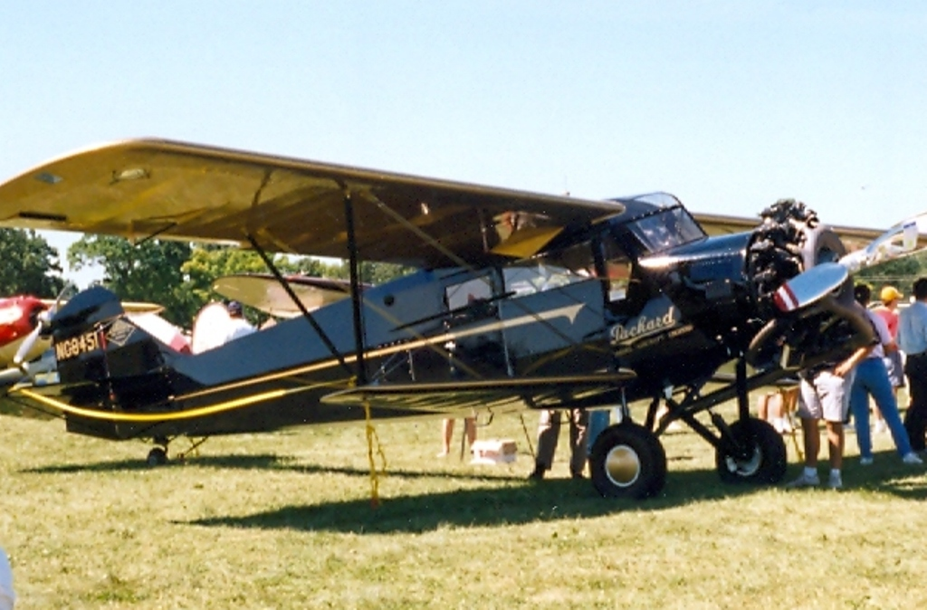 Buhl CA-3E